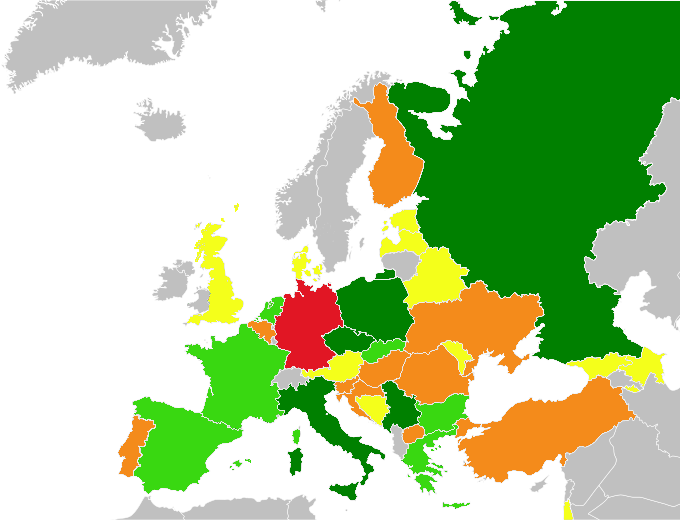 Elimination of 2003 Men's European Volleyball Championship